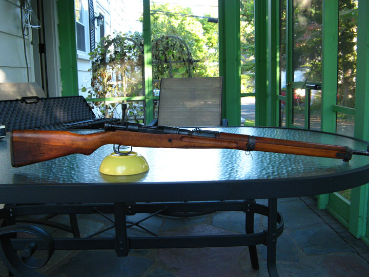 A full view of the Arisaka Type 99 Japanese Rifle. This rifle was turned over at the end of WWII and had the Emperial Mum ceremonially ground off by the Japanese before being handed over. It is chambered in 7.7 x 58mm.